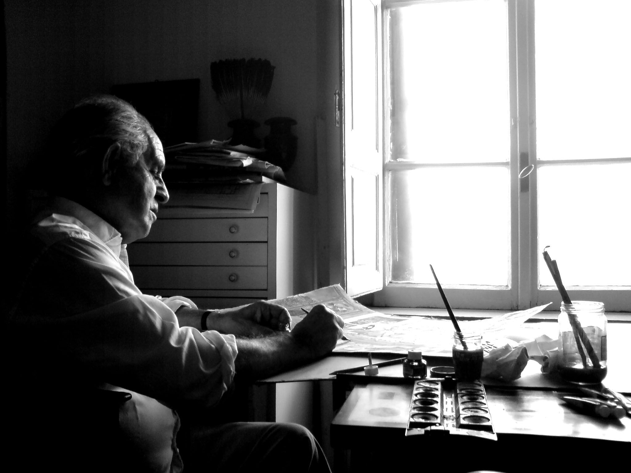 This is a photo taken by the artists grandson, Jenner del Vecchio, of Sicilian painter, illustrator and writer Bruno Caruso, at his desk in Rome.